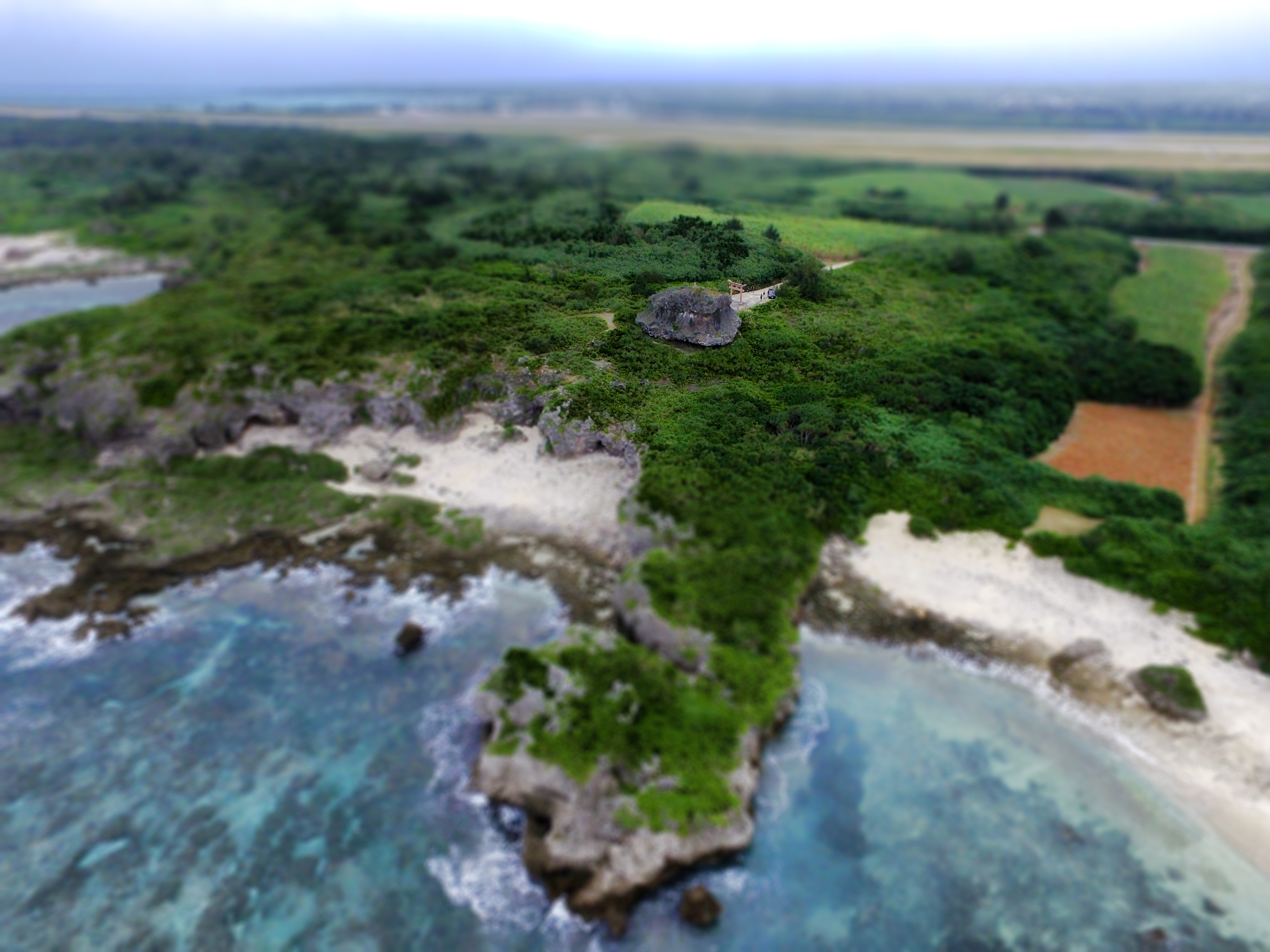 Obi-iwa (or Obi-iwa Rock, Obi Rock), Shimoji-shima, Miyakojima, Okinawa Prefecture, Japan.